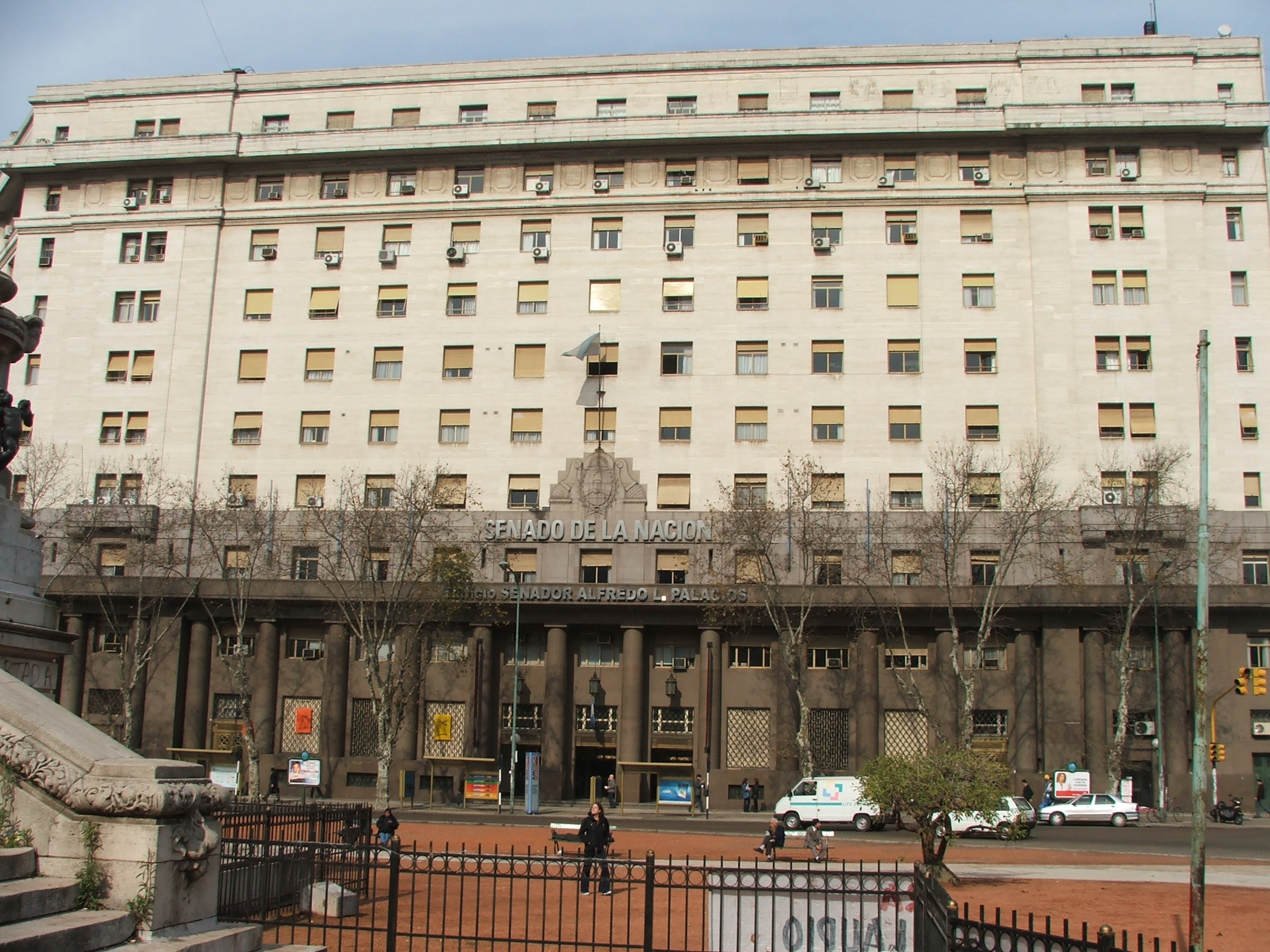 The Alfredo Palacios Senate Office Building, formerly the Postal Savings Bank. Buenos Aires, Argentina.